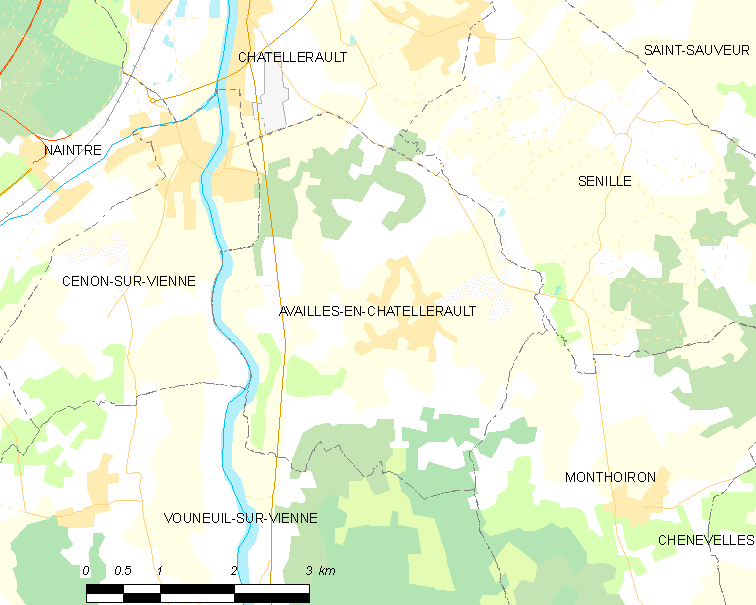 Map of French municipality Availles-en-Châtellerault